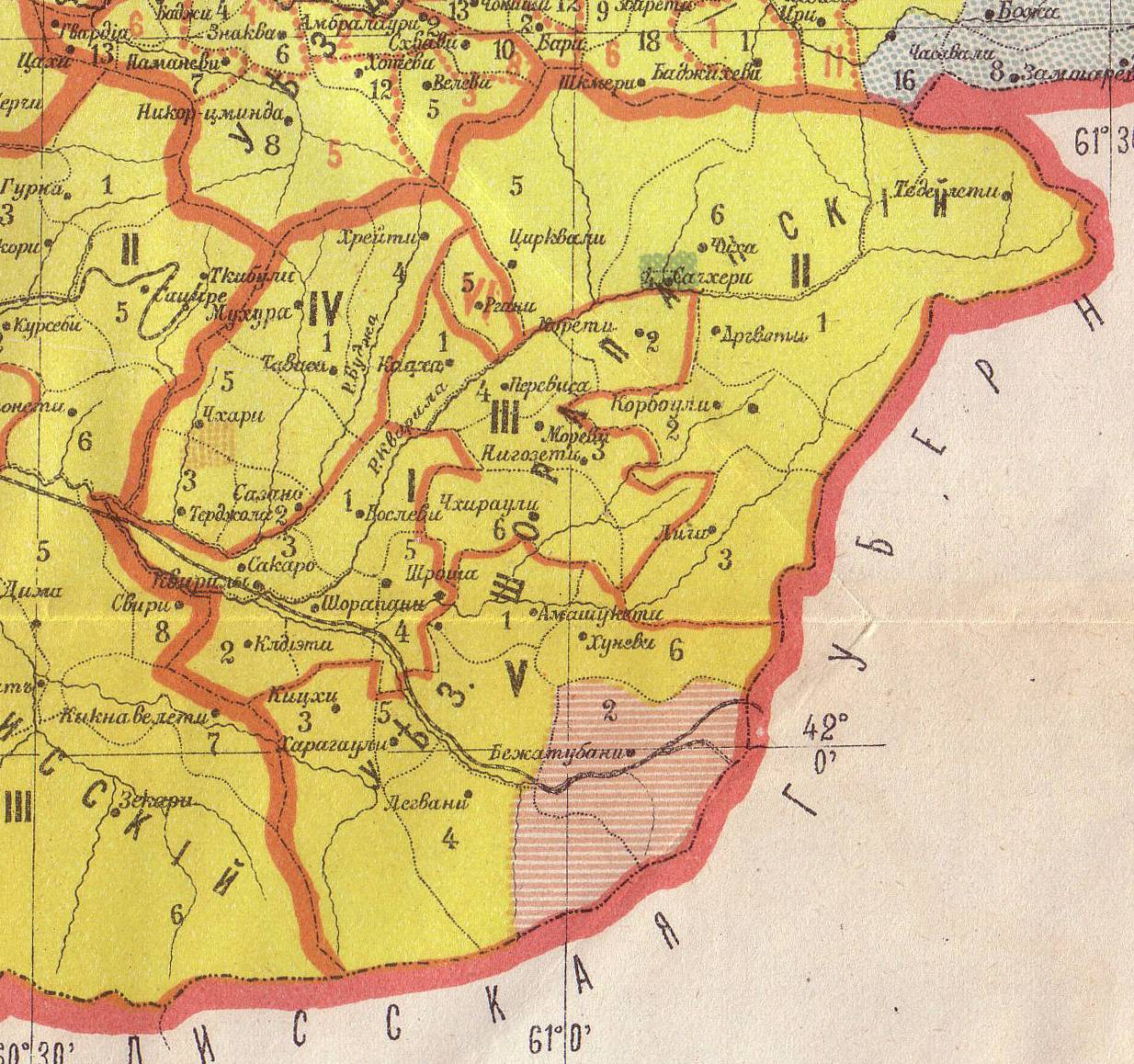 Ethnographic map of the Kutais Governorate